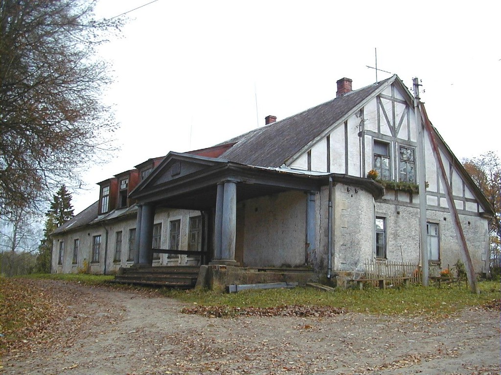 Autzem manorLatviešu: Auciema muižas kungu māja